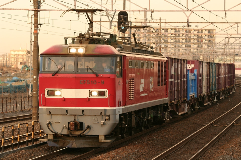 JR Freight Class EF510 electric locomotive EF510-9 on the Tokaido Main Line, near Kishibe Station